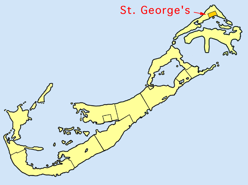 Location map of town of St. George's, Bermuda